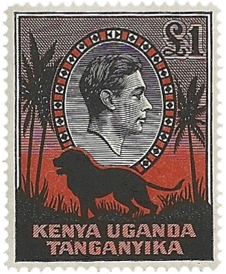 Postage stamp, Kenya-Uganda-Tanganyika, 1938 feat. King George VI and lion.